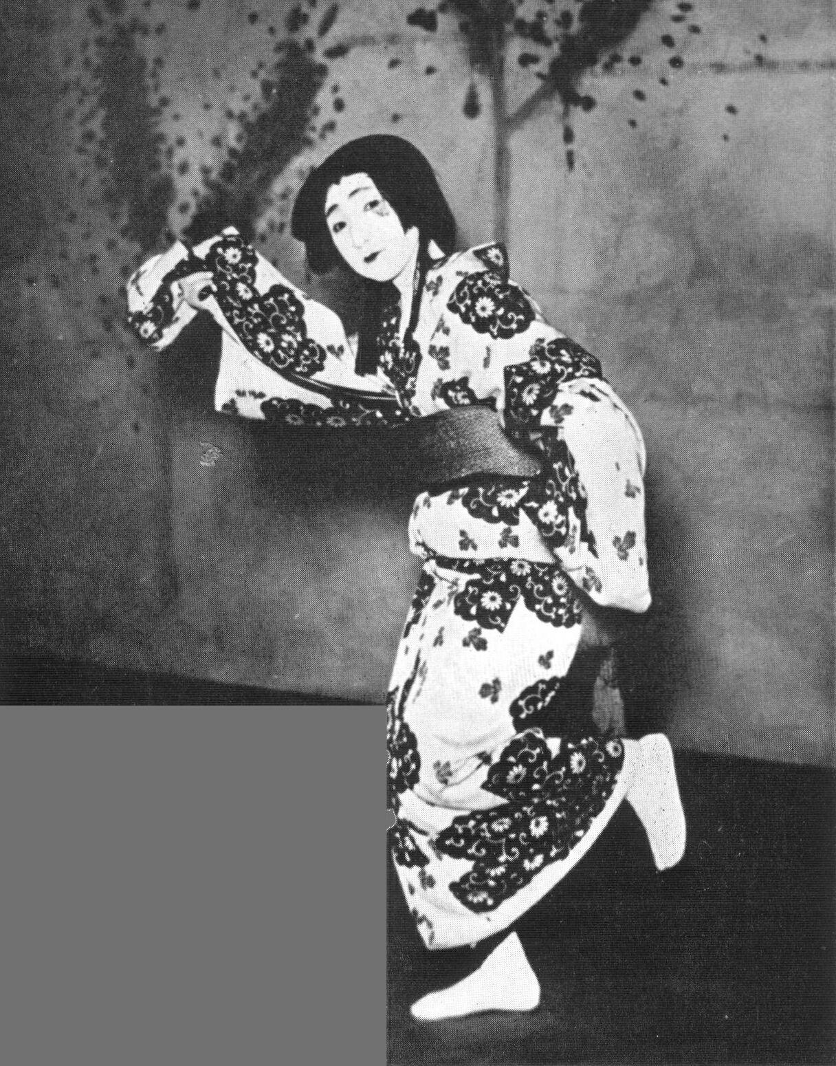 Sizue Fujikage （Seijyu Fujikage) (1880-1966) was a Japanese dancing mistress.